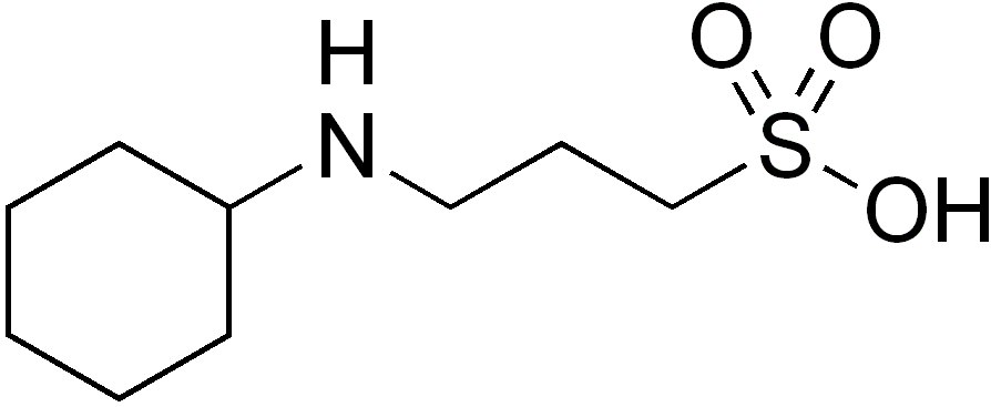 chemical structure of CAPS (3-(Cyclohexylamino)-1-propanesulfonic acid)